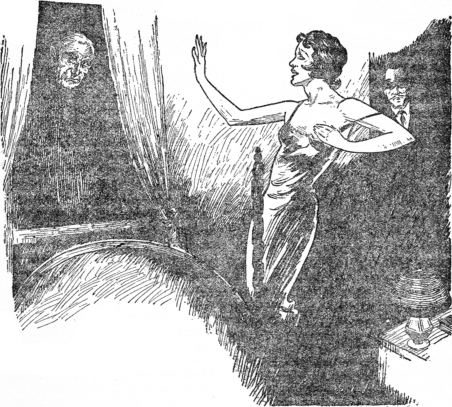 Main illustration from the short story "The Jest of Warburg Tantavul." Internal Illustration from the pulp magazine Weird Tales (September 1934, vol. 24, no. 3, page 296).